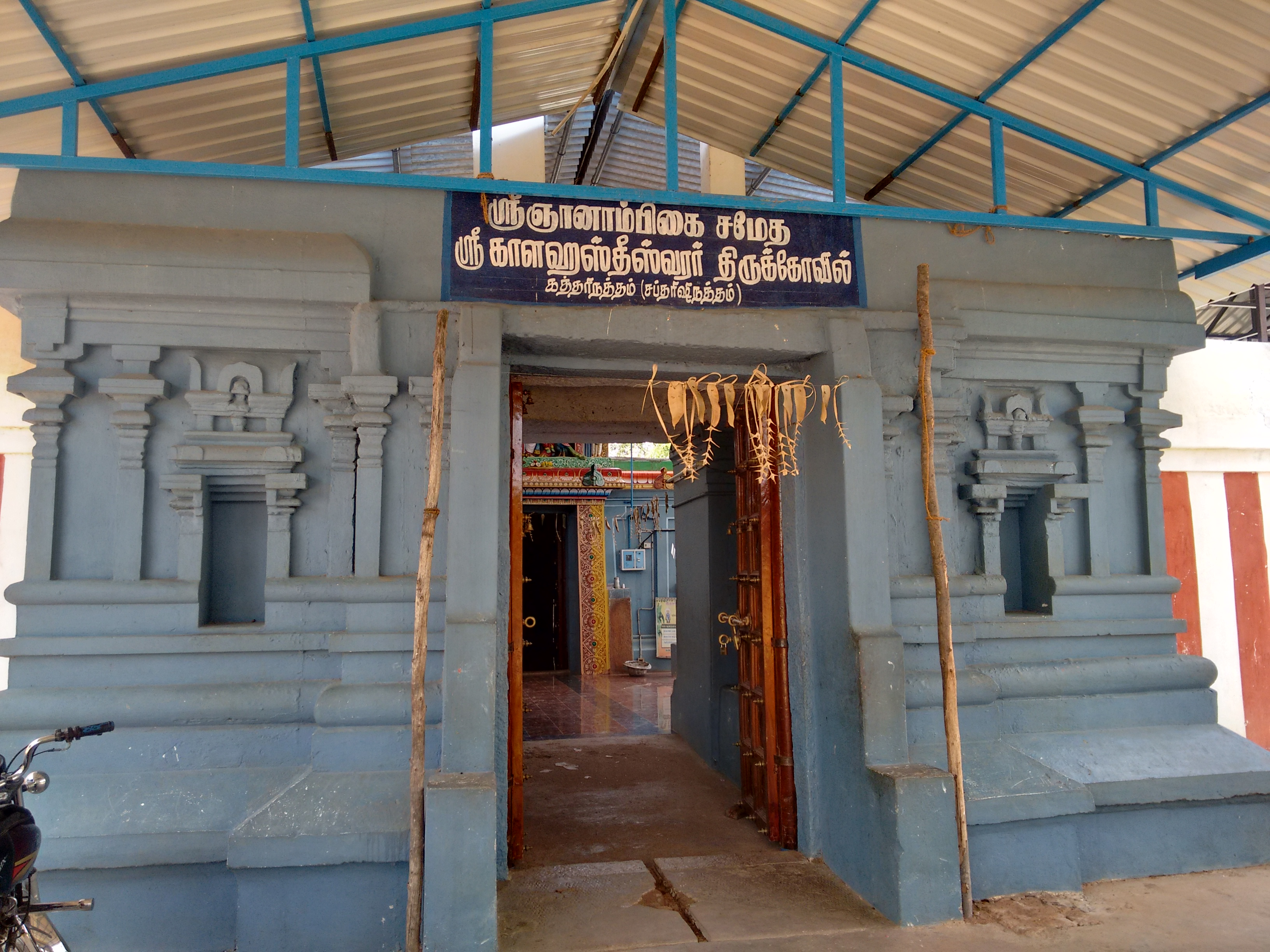 Kattirinattham kalahasteeswarar entrance கத்திரிநத்தம் காளகஸ்தீஸ்வரர் கோயில் நுழைவாயில்